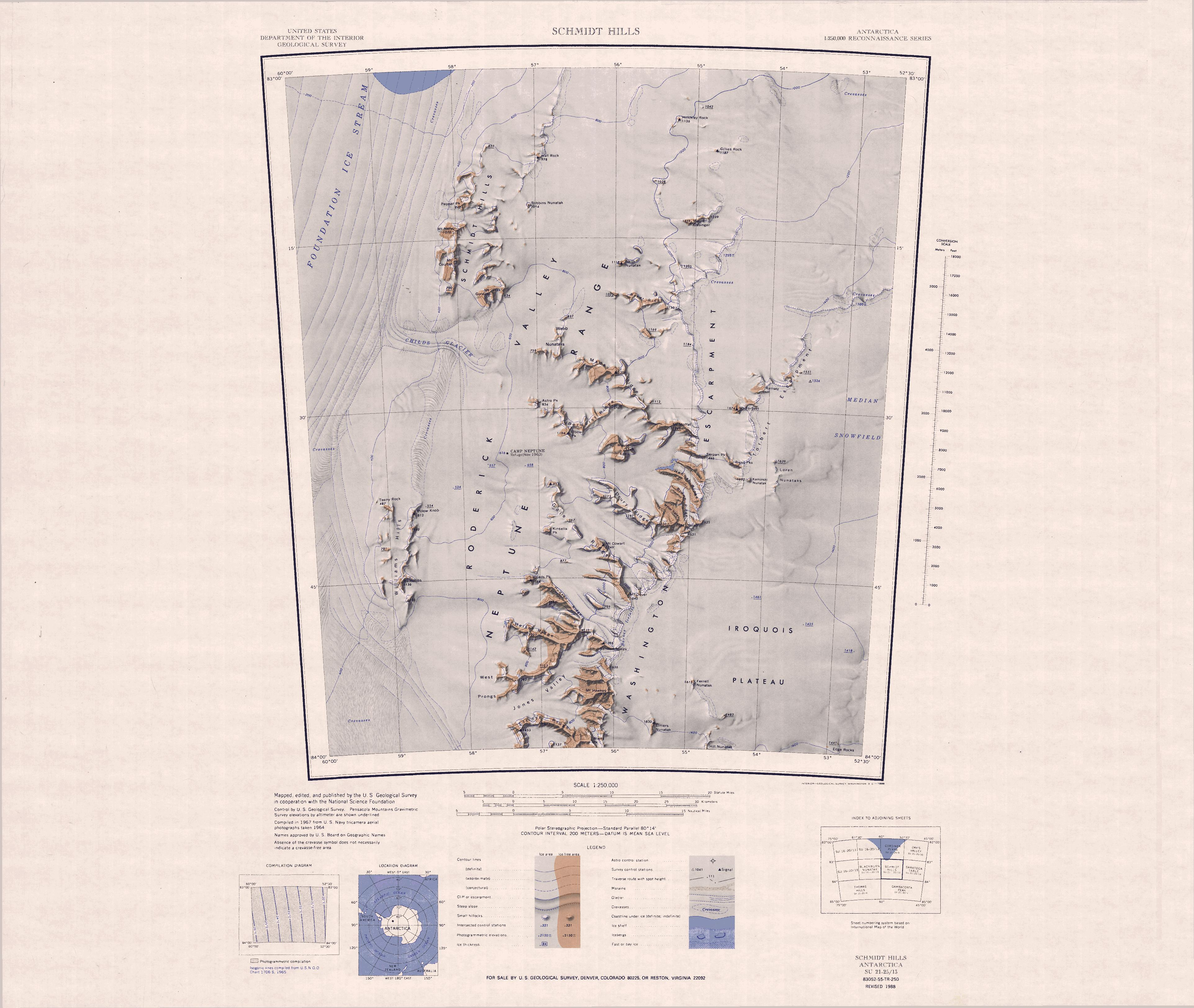 Topographic Map Sheet of Antarctic Coverage, scale 1:250,000